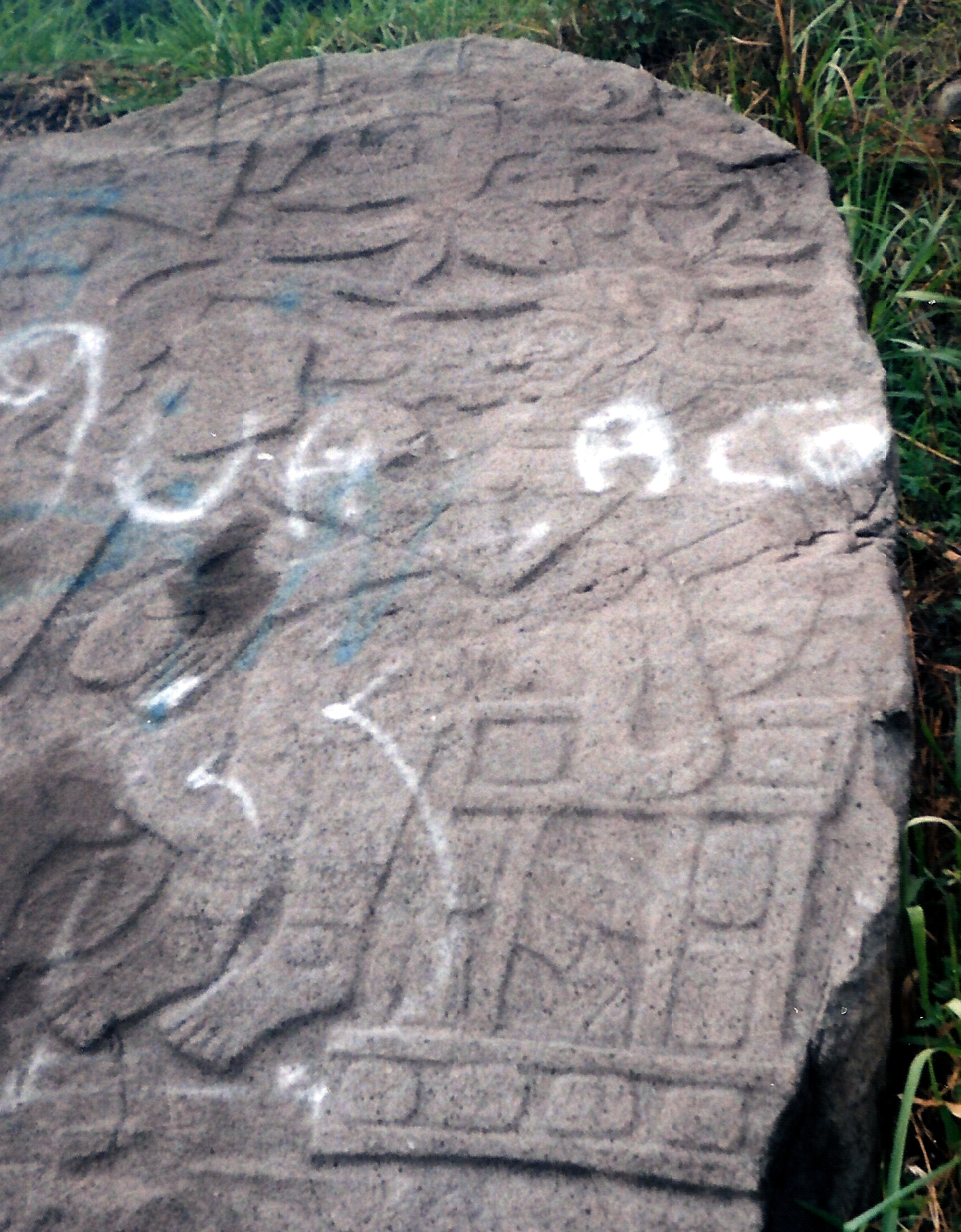 Detail of seated figure on Monument 21 at Bilbao archaeological site, Escuintla, Guatemala.